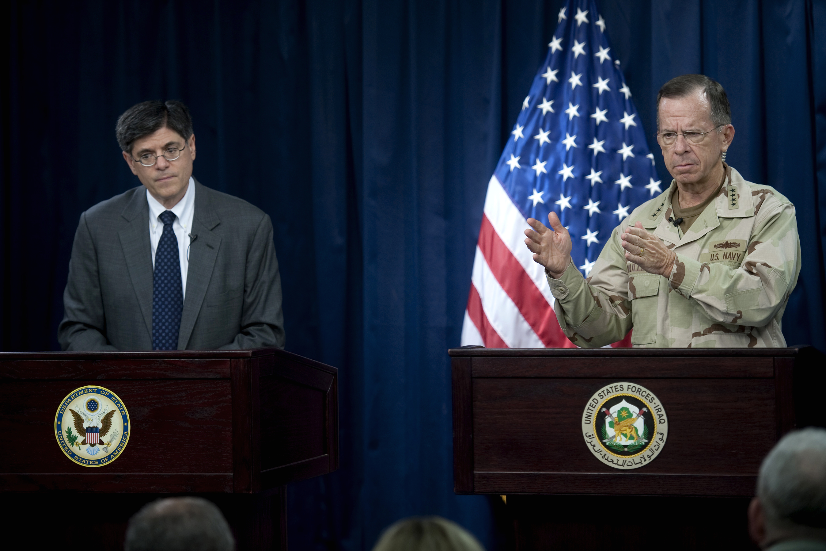 U.S. Navy Adm. Mike Mullen, chairman of the Joint Chiefs of Staff, and Deputy Secretary of State Jacob Lew address the media at the Combined Press Information Center in Baghdad, July 27, 2010. DoD photo by U.S. Navy Petty Officer 1st Class Chad J. McNeeley